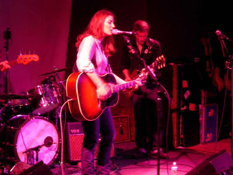 Kathleen Edwards at The Knitting Factory, Hollywood.